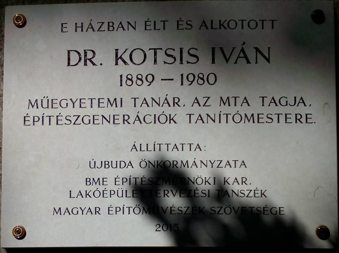 Iván Kotsis commemorative plaque in Budapest District XI, Kanizsai Street No 5.